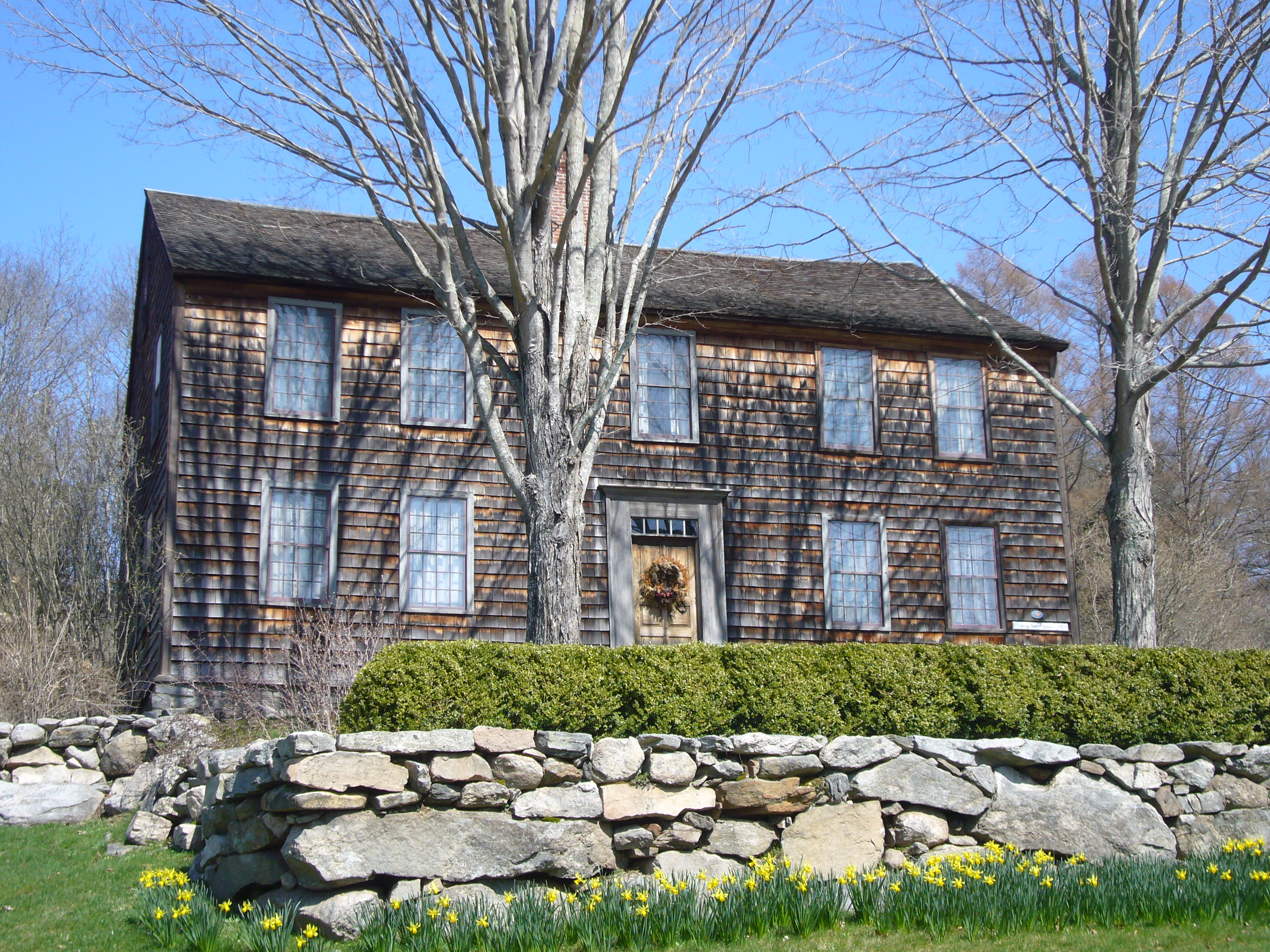 Pequotsepos Manor (Denison Homestead), Mystic, CT, USA (exterior)